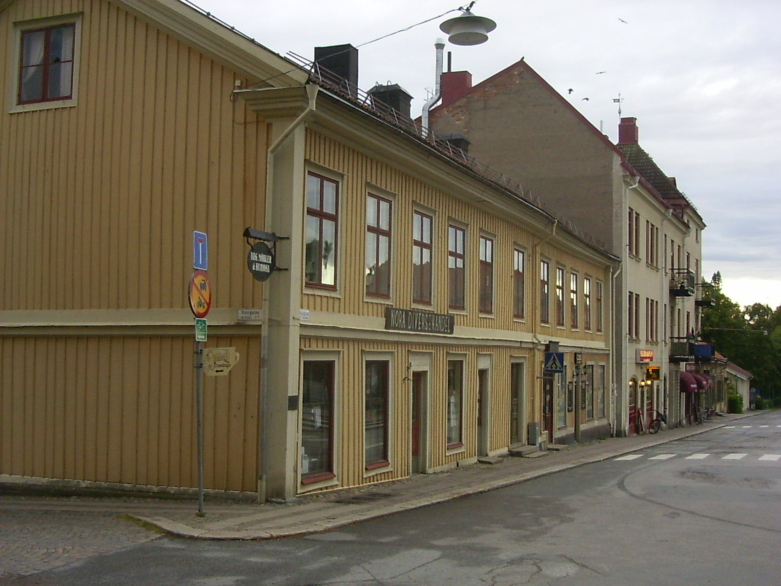 Wooden houses in central Nora